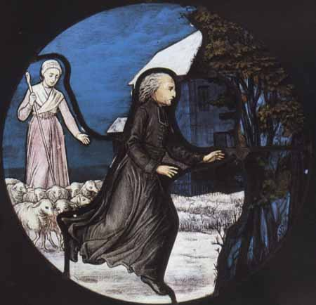 Stained glass window of the Notre-Dame church in Beaupréau, showing a shepherdess driving her sheep to cover the tracks left in the snow by Urbain Loir-Mongazon fleeing the french revolutionary soldiers